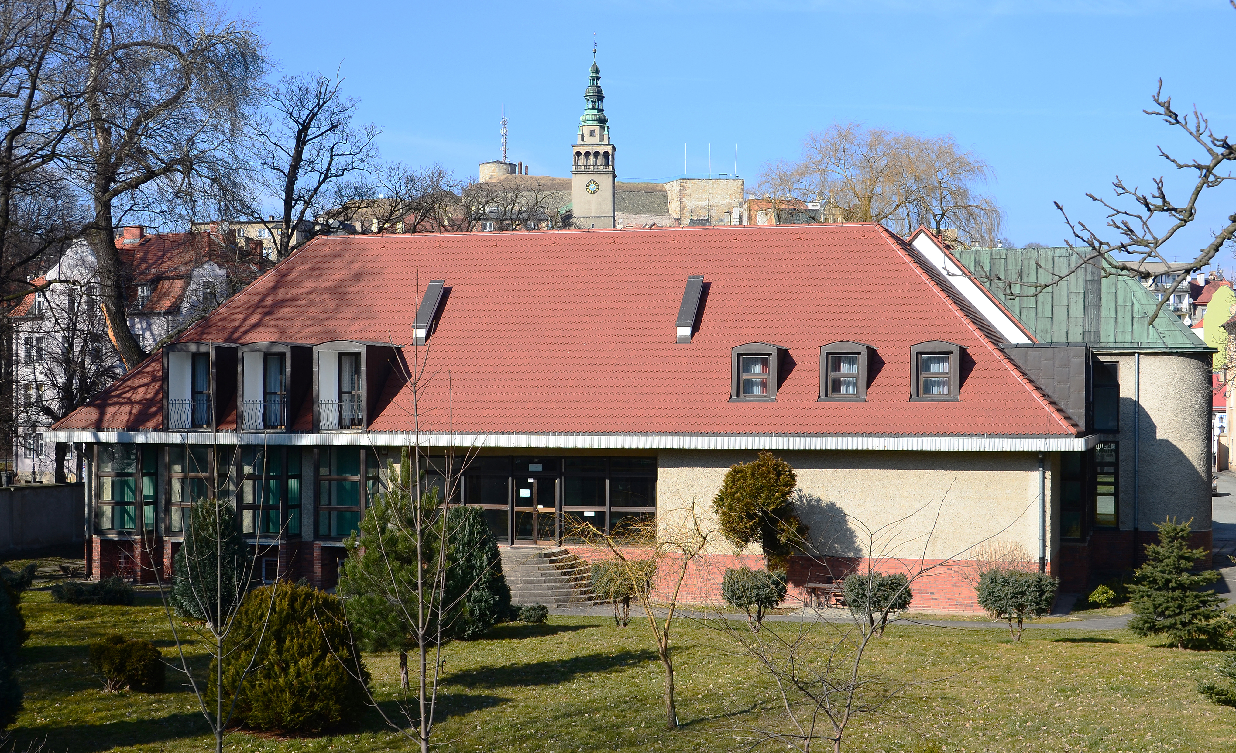 Franciscan monastery in Kłodzko